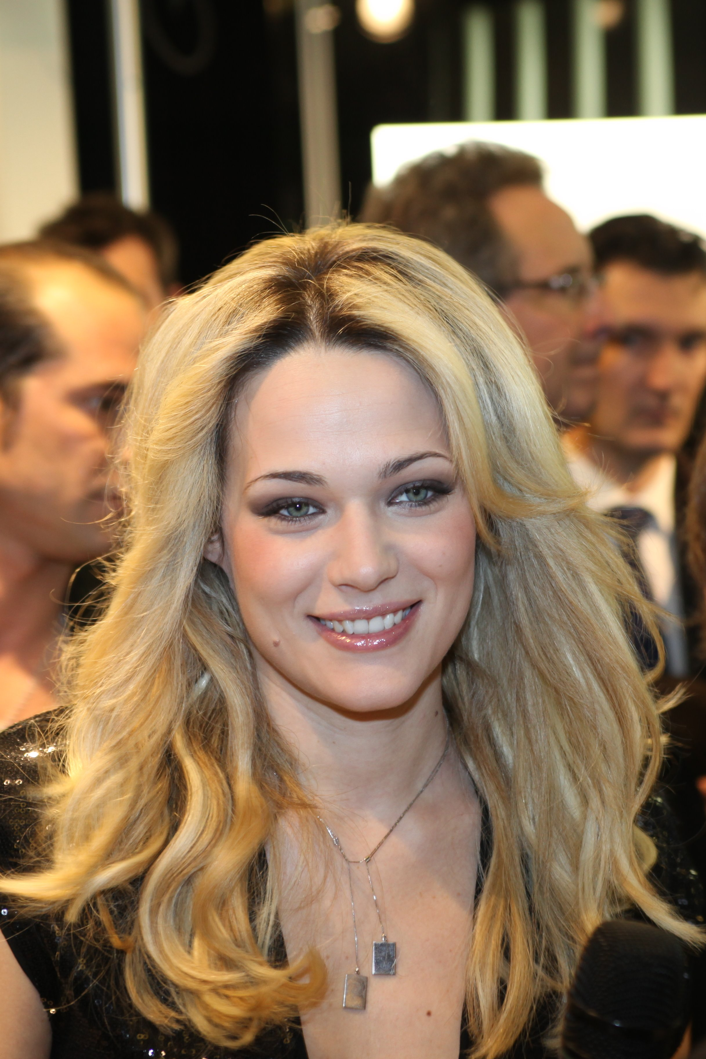 Laura ChiattiLaura Chiatti